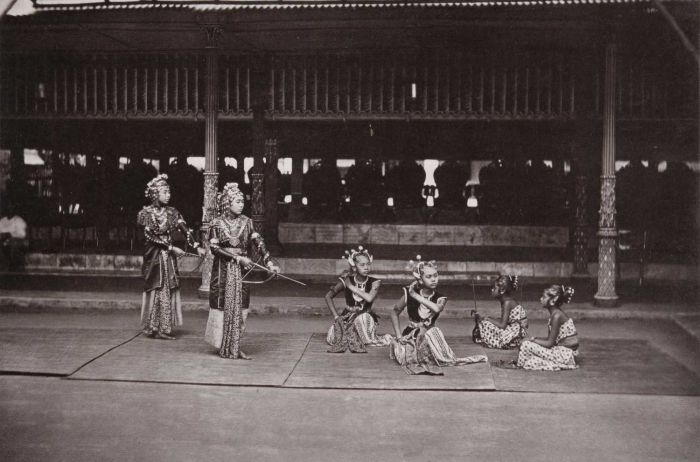 A group of four srimpi, another category of court-dancers, performing a scene from the Putri Cina story in the Kraton. Each character is played by two dancers. The character at left is the Chinese princess Dewi Adaninggar who tries to kill her rival in love, princess Kelaswara. This picture is plate VIII of Isaäc Groneman's In den Kedaton te Jogjåkartå. (G. Knaap 1999)